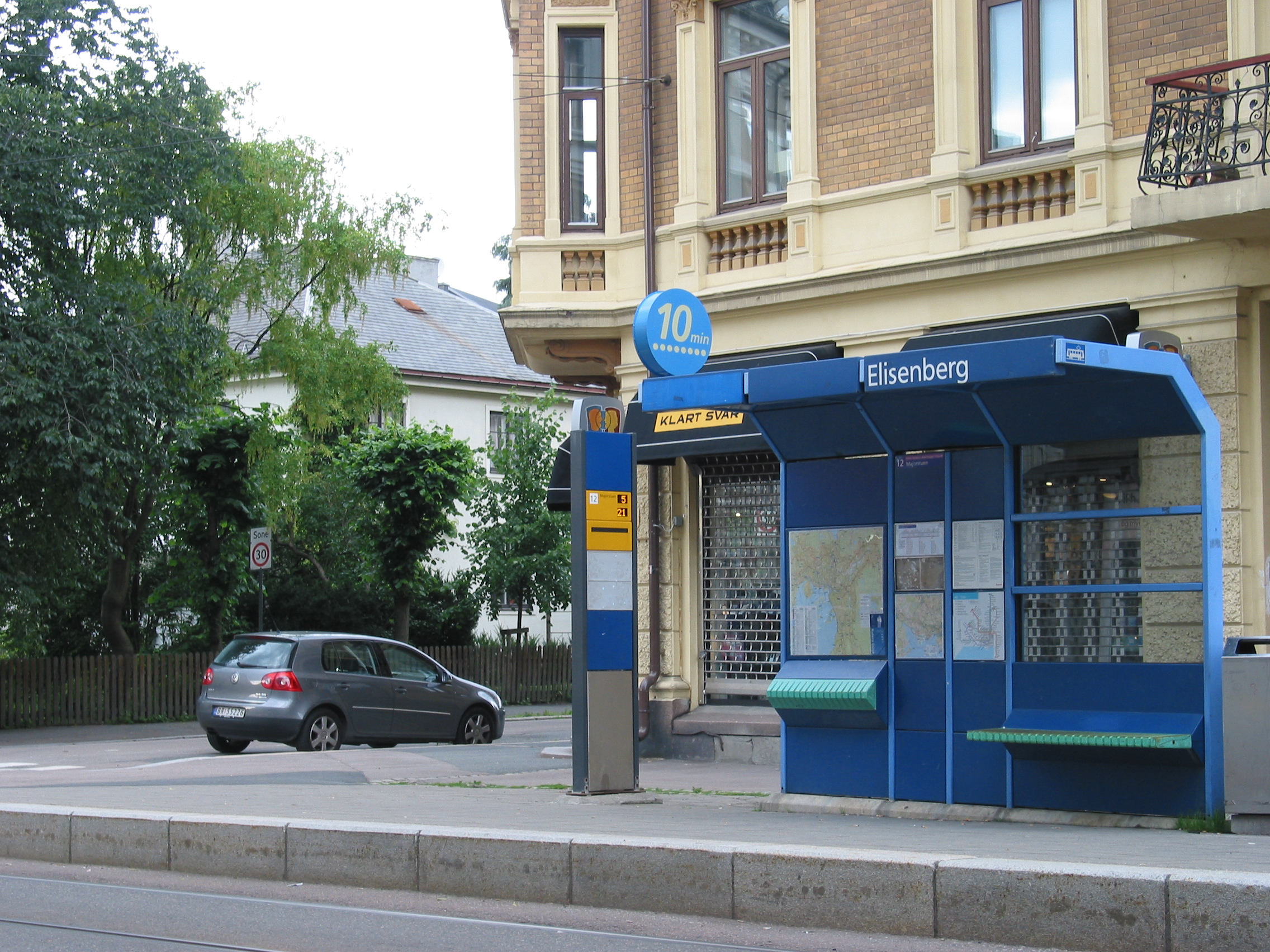 Tramway station Elisenberg in Frogner, Oslo, Norway.